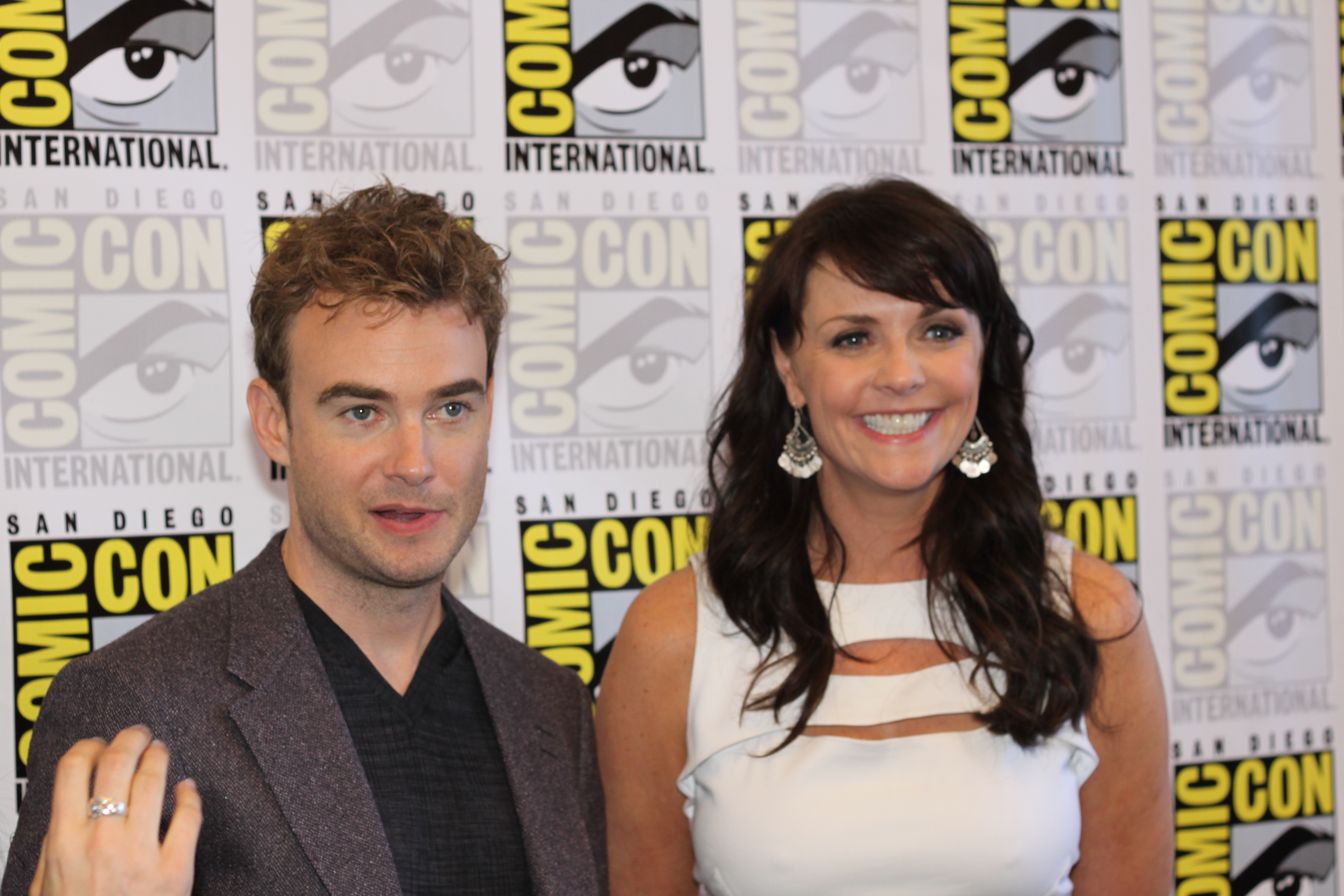 Robin Dunne and Amanda Tapping at Comic Con 2011